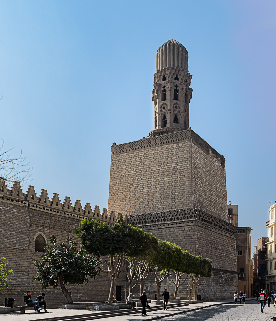 Al Hakem Mosque, AKA The Enlightened Mosque is a major Islamic religious site in Cairo, Egypt. named after Imam Al-Hakim bi-Amr Allah (985–1021), the sixth Fatimid caliph,16th Fatimid/Ismaili Imam and the first to be born in Egypt, located in Islamic Cairo, on the east side of Muizz Street, just south of Bab Al-Futuh. The mosque have two minarets that stood independent of the brick walls at the corners. These are the earliest surviving minarets in the city and they have been restored at various times